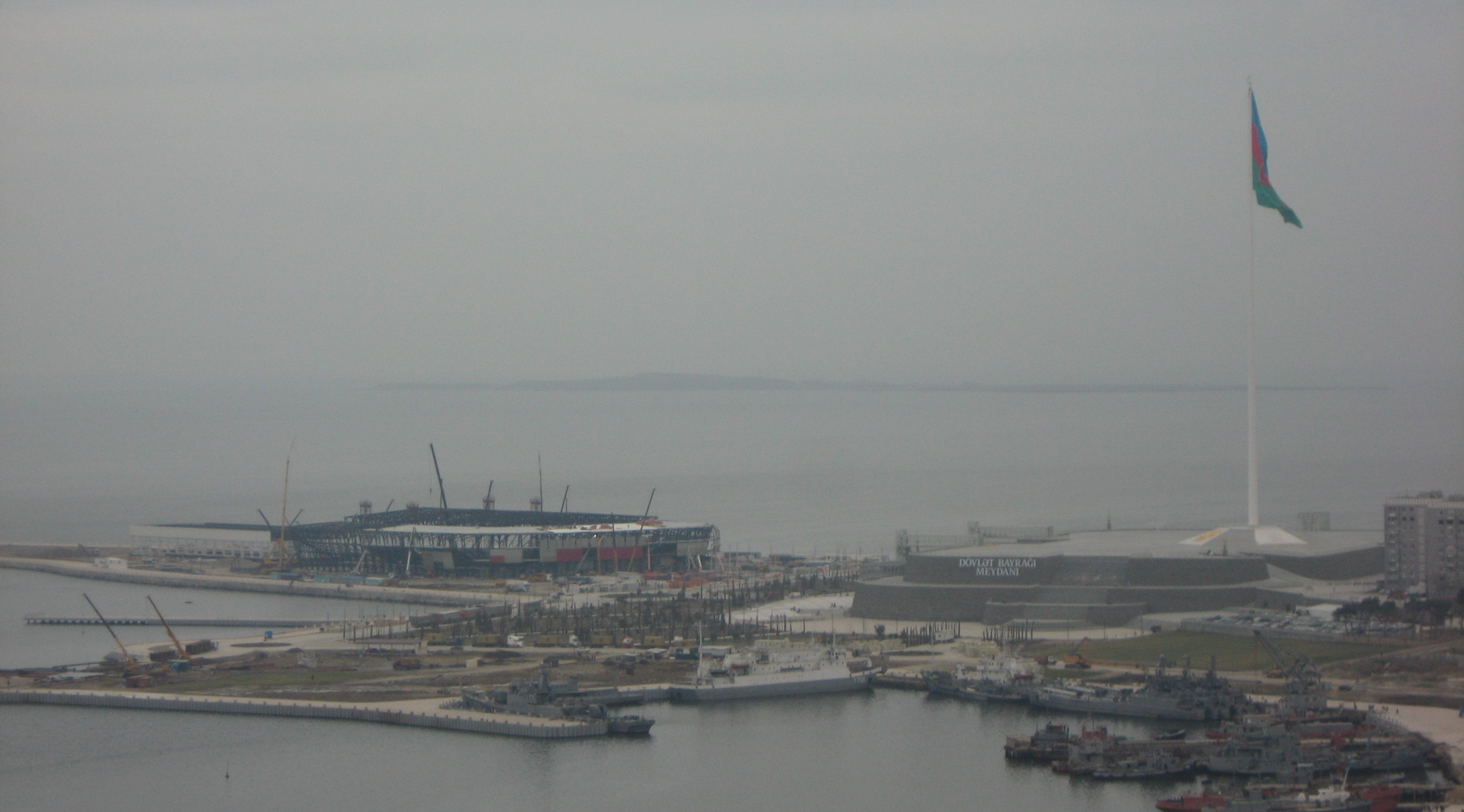 Baku Cristall Hall under construction.